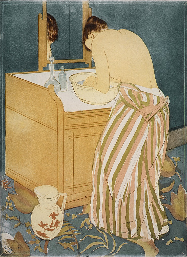 Print; Prints